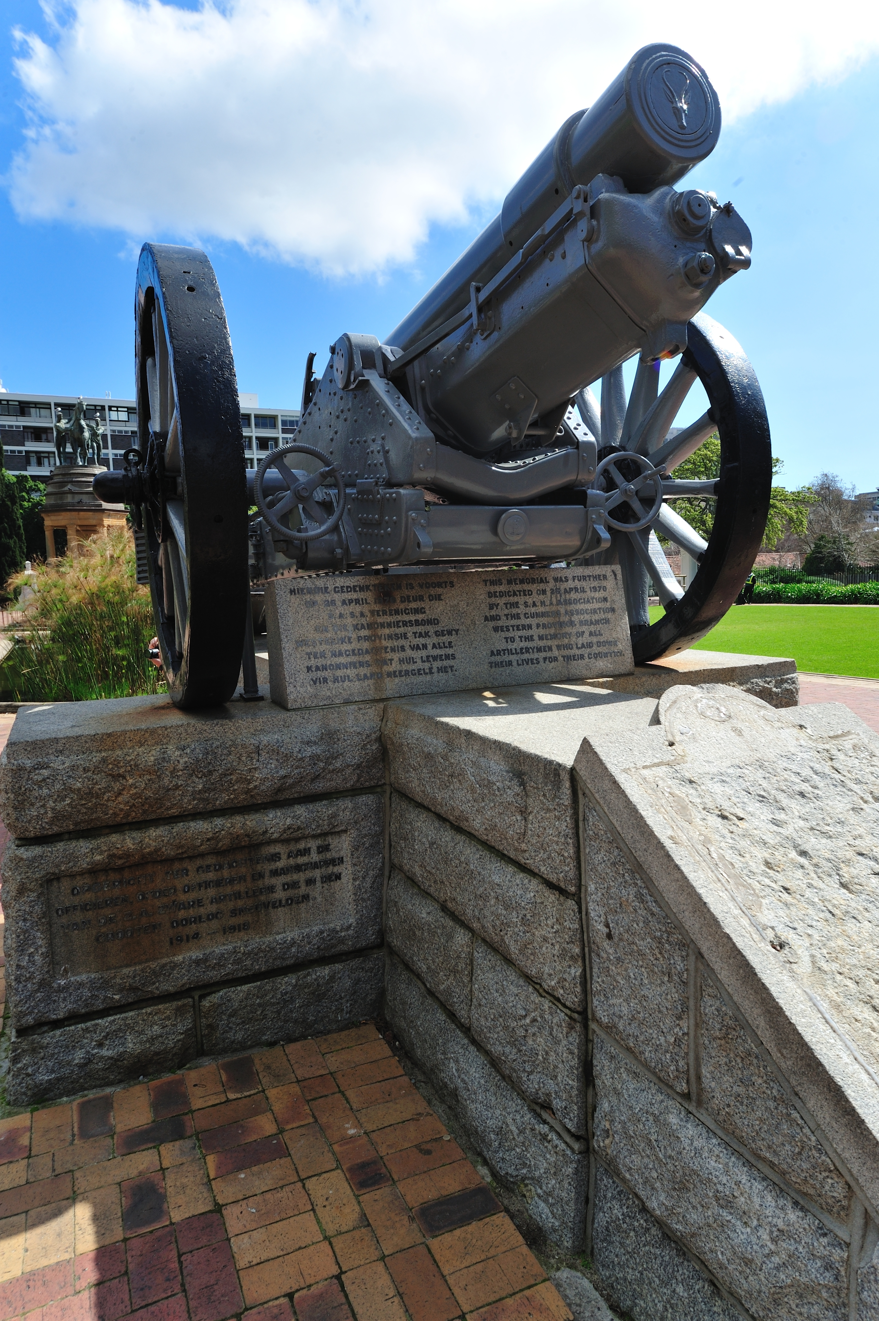 Artillery Monument in the Company Gardens, Cape Town This media shows a South African Protected Site with SAHRA file reference 9/2/018/0149.